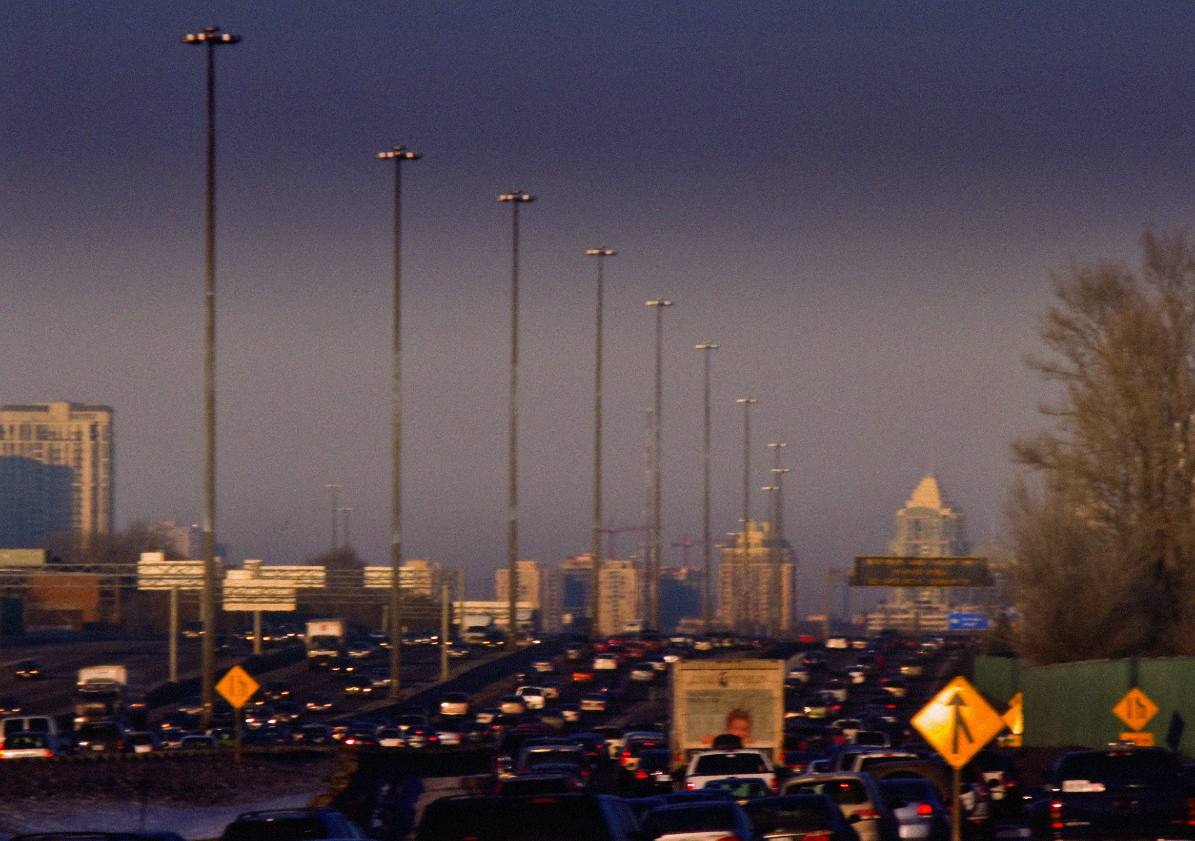 The worlds busiest freeway is proudly Canadian, and yet strangely its still not wide enough. View of Highway 401 as it passes through part of Toronto.